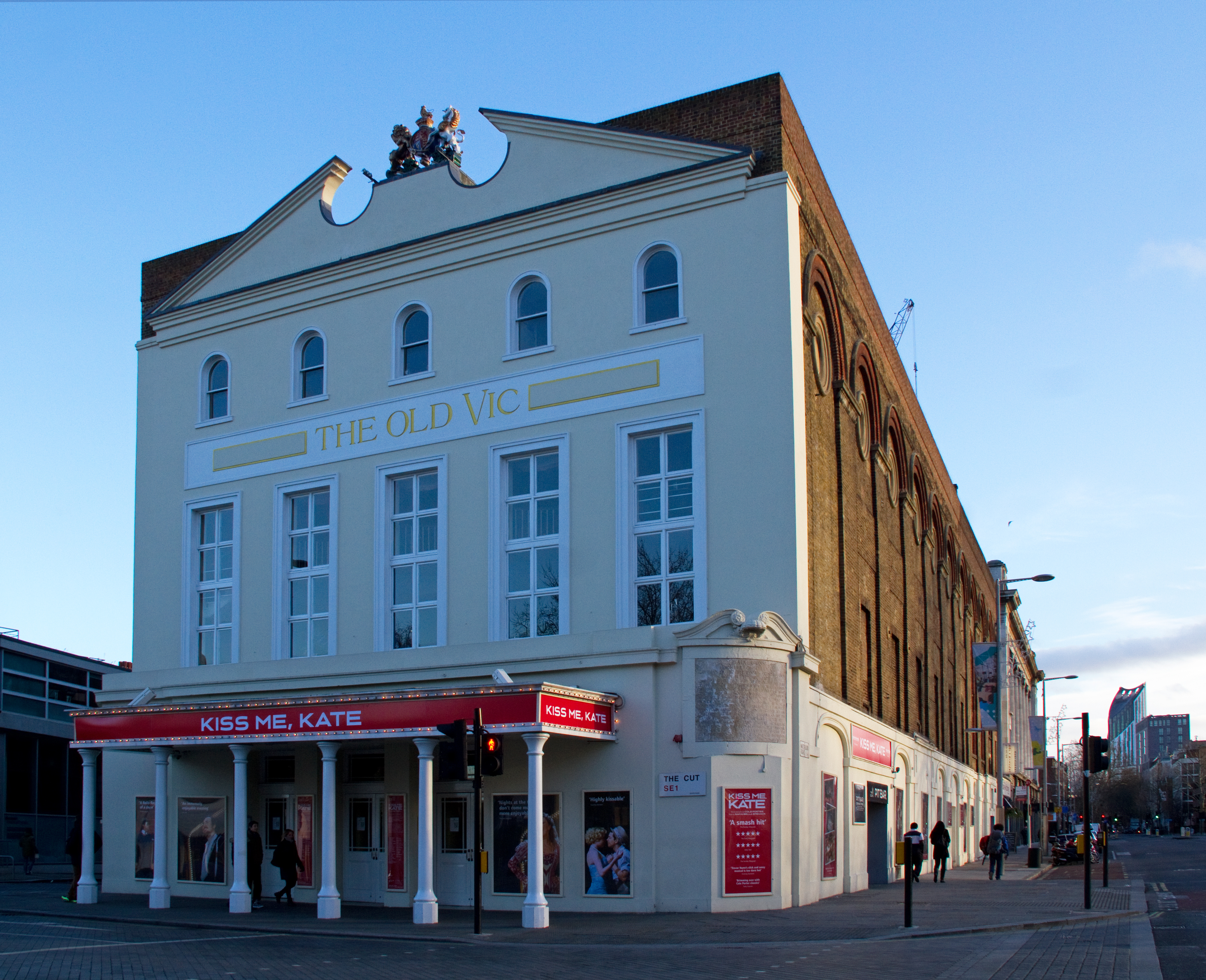 The Old Vic